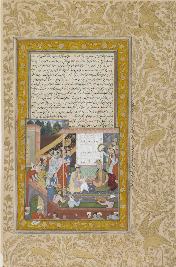 Young Akbar Recognizes His Motherfrom anAkbarnama ca. 1596-1600 Madhava Mughal dynasty Reign of Akbar Opaque watercolor, ink and gold on paper H: 12.9 W: 12.0 cm India Purchase F1939.57